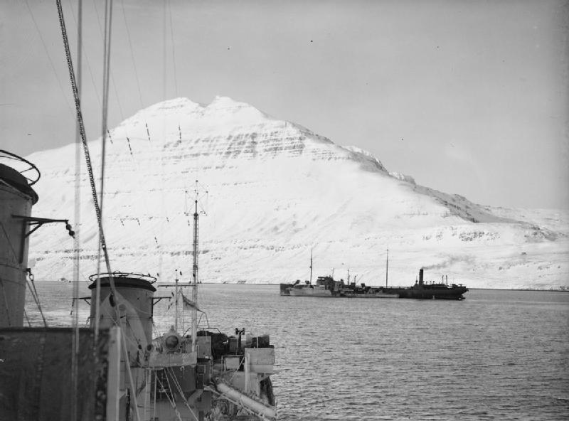 Arctic Convoy. on Board HMS Inglefield , 14 February To 13 March 1943, during Convoy Duty in Arctic Waters. HMS INGLEFIELD alongside a tanker in an Icelandic Fjord.